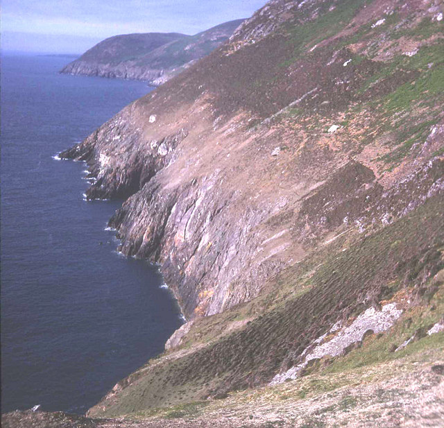 Coastline at Braich y Pwll Looking north-east to Braich y Noddfa and Braich Anelog.